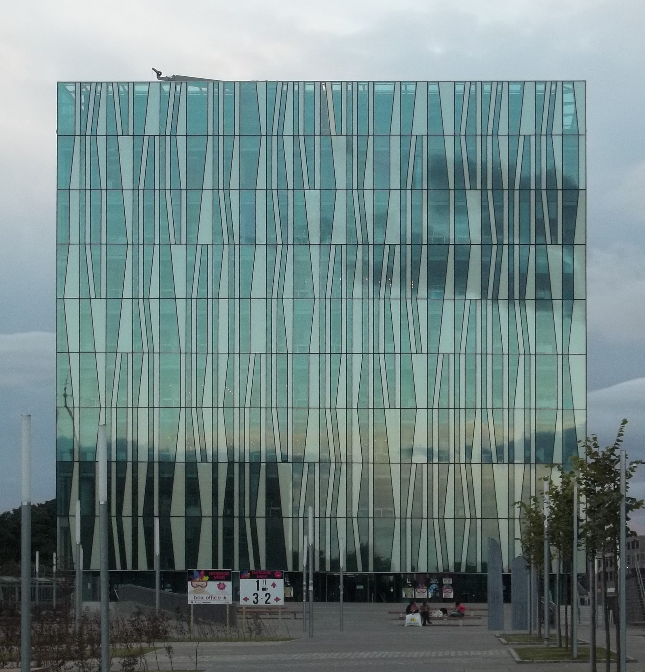 Sir Duncan Rice Library, Aberdeen University, Aberdeen